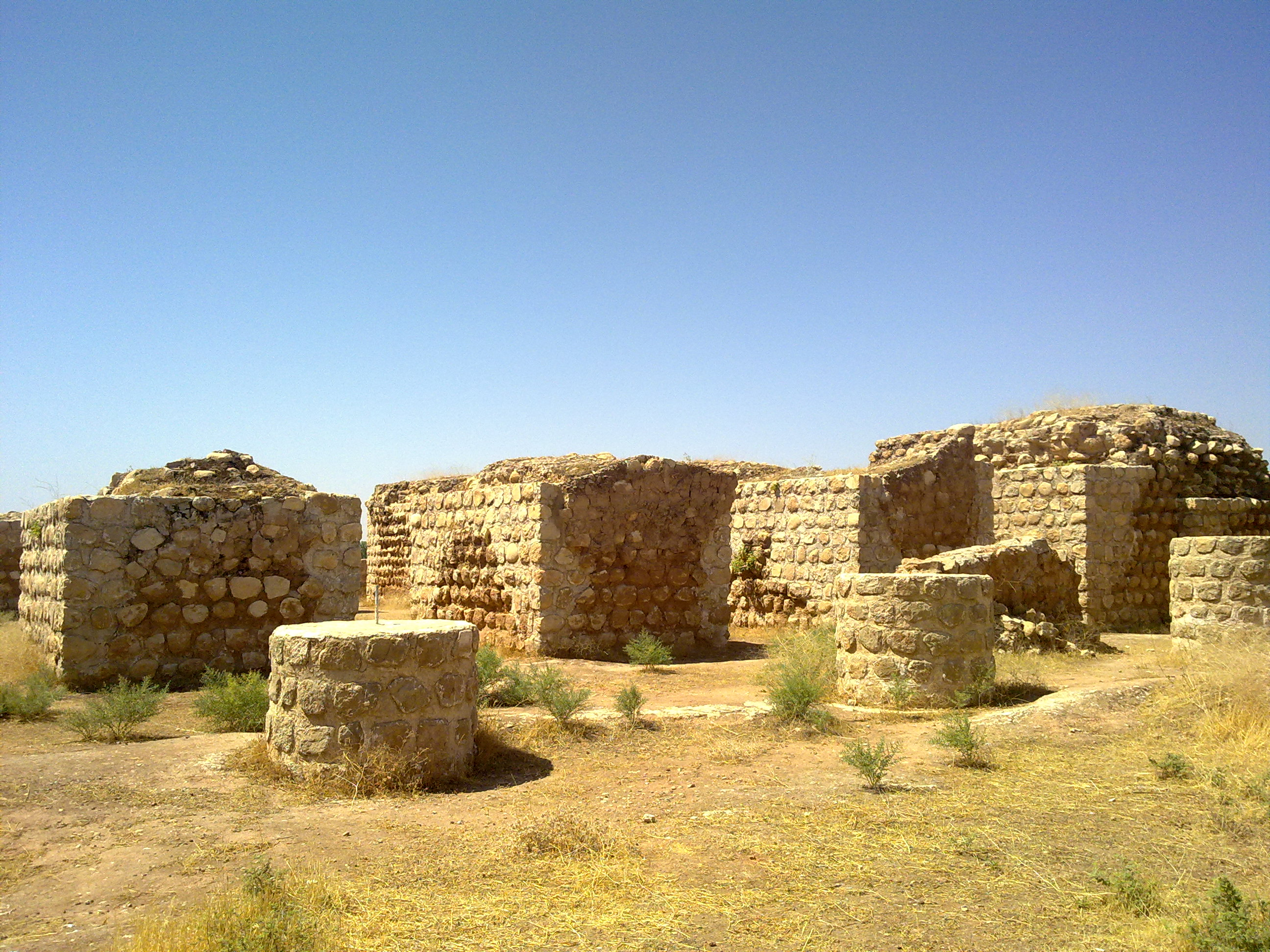 Khosrow' Palace, which has built for Khosrow-Parwiz's Armenian wife Shirin, in the Kurdih city of Qasr-e Shirin (Qesir Sîrîn)in Iranian Kurdistan.